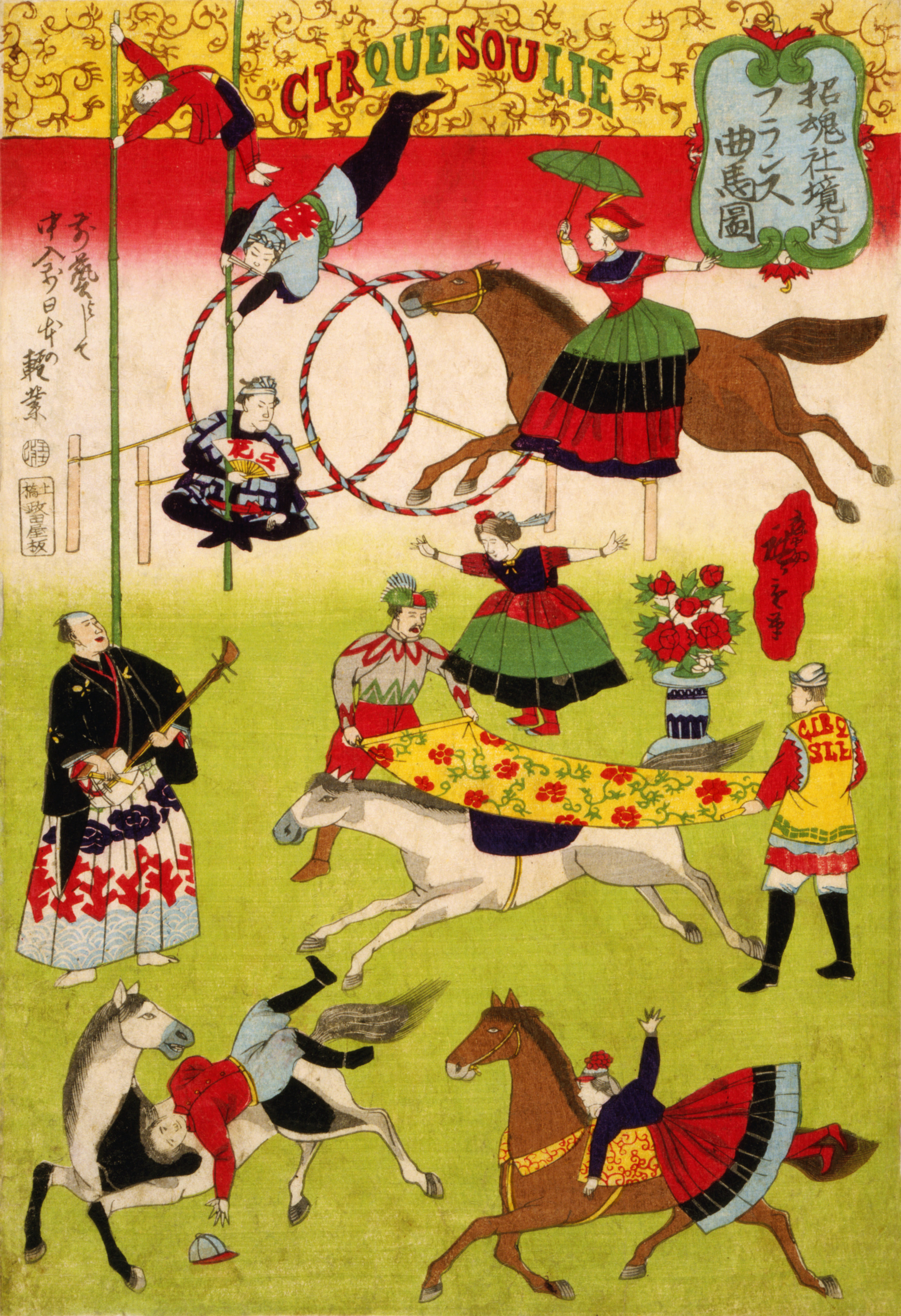 Shōkonsha keidai Furansu ōkyokuba [no] zu (Big French circus on the grounds of Shokonsha (Yasukuni) shrine). Left section of a triptych showing circus at Yasukuni Shrine, originally called Shokonsha, Tokyo, Japan, with acrobats, trapeze artists, and horseback stunt riders.